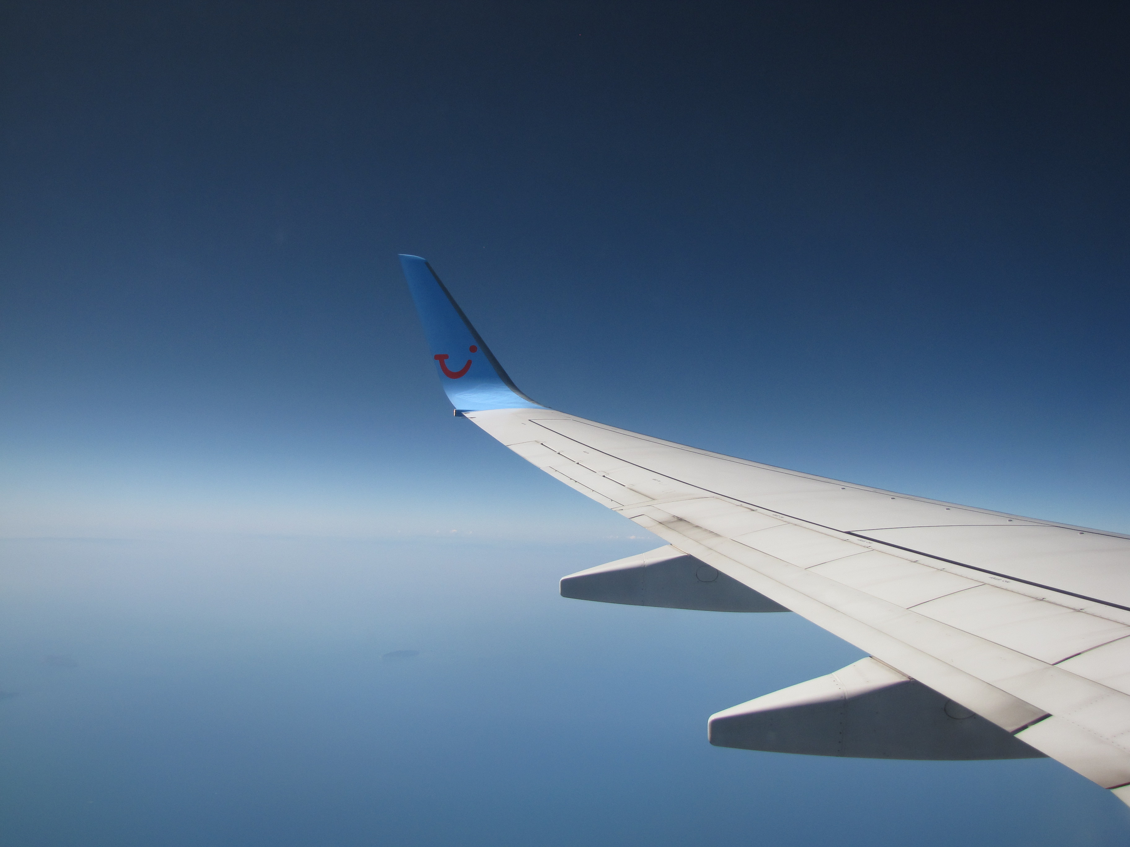 The Jetairfly Boeing 737-700 wing